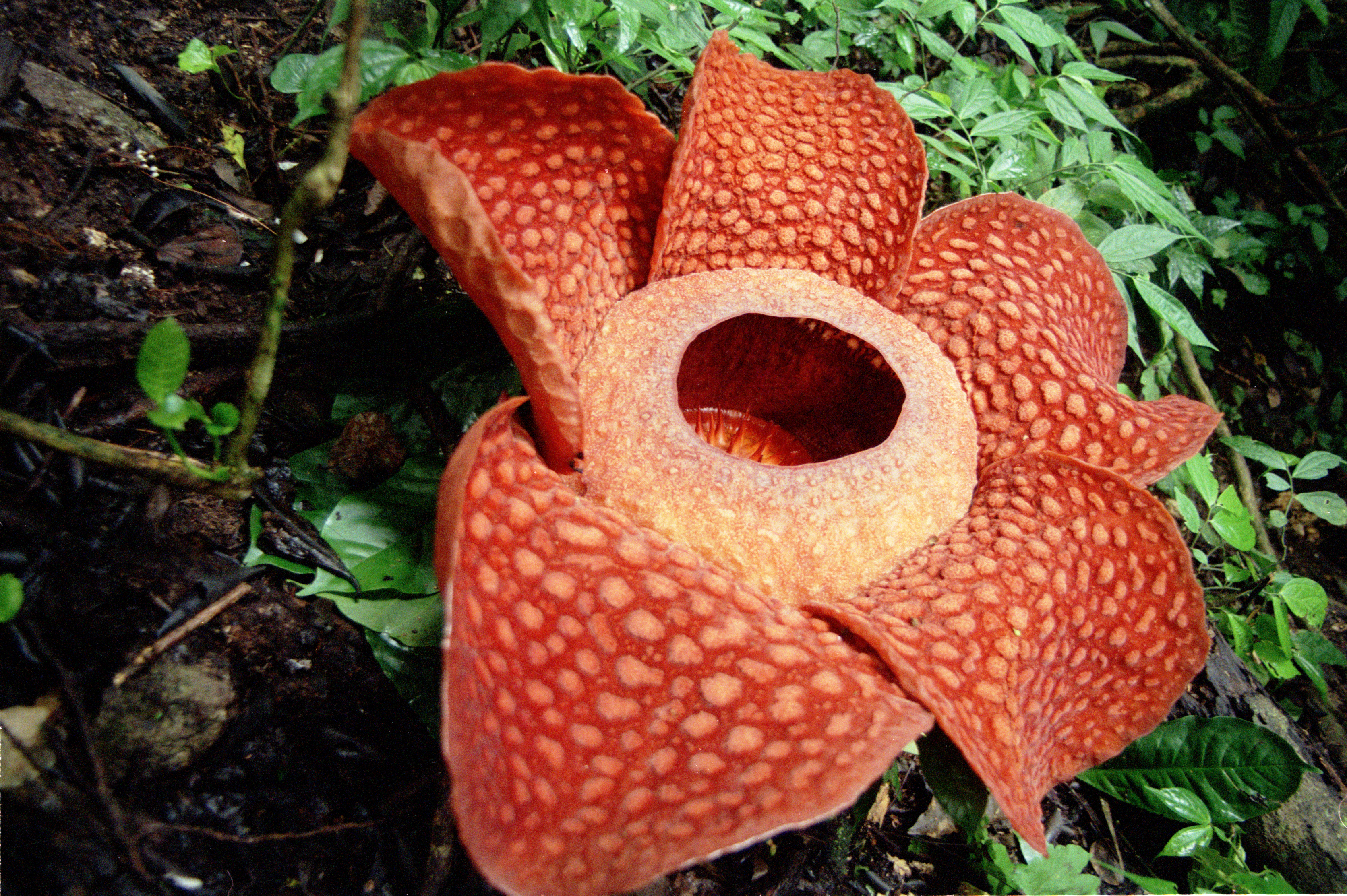 Rafflesia arnoldii. Picture taken east of the Lake Maninjau, Sumatra, Indonesia.